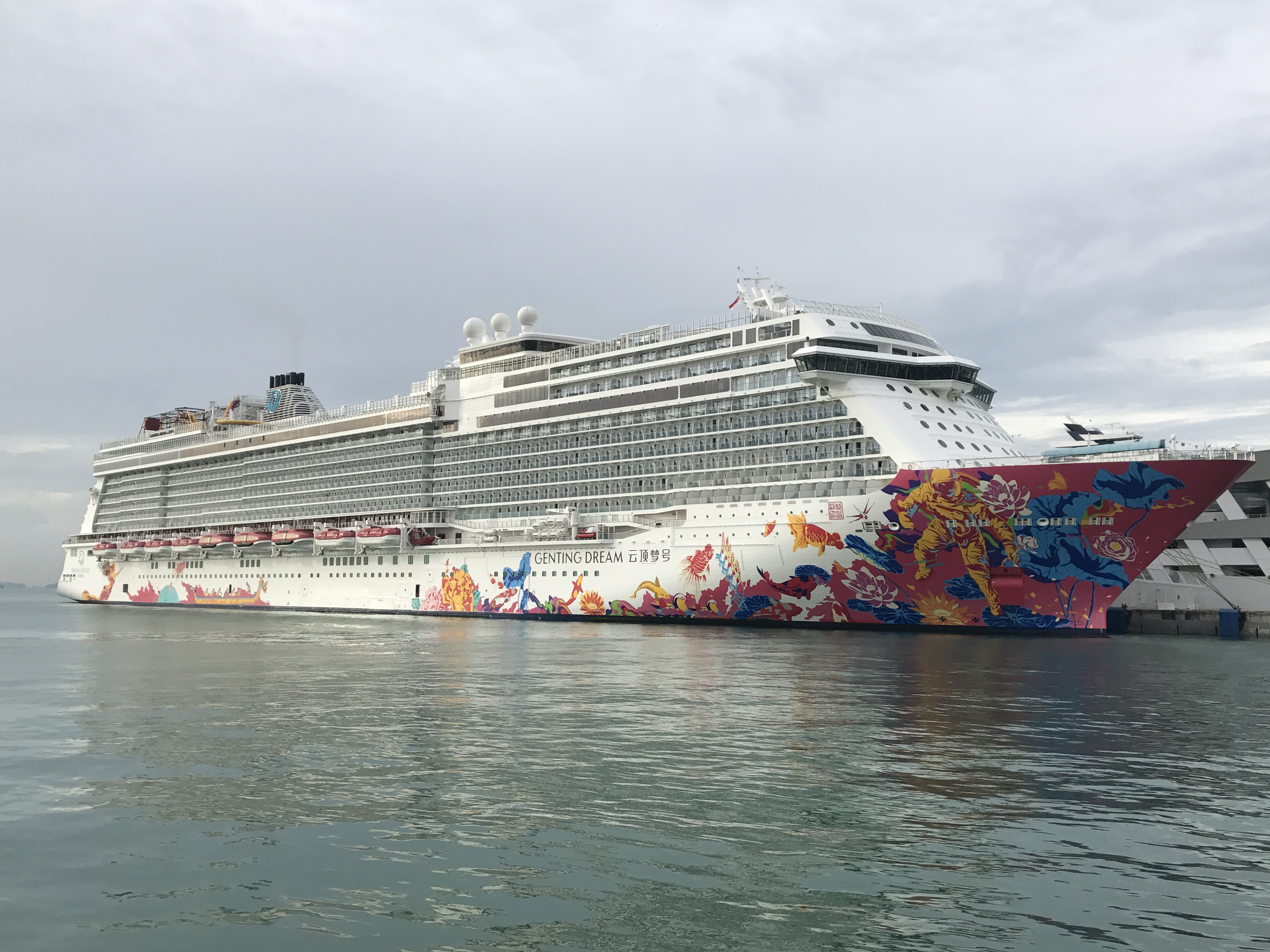 Photo of Genting Dream at Marina Bay Cruise Centre Singapore.